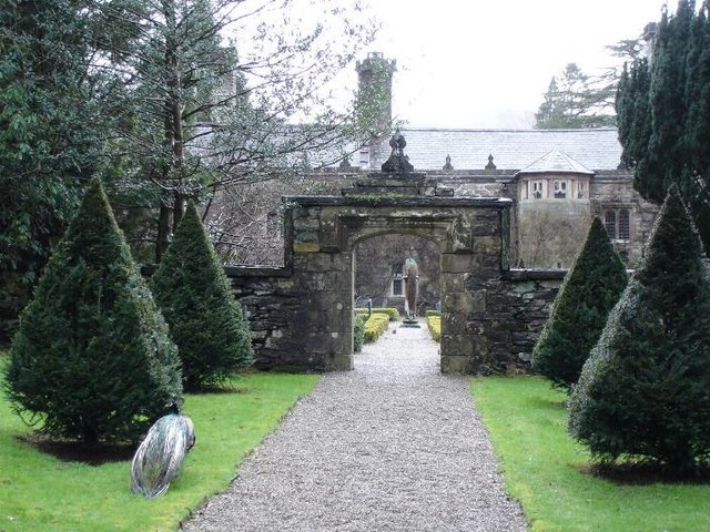 Peacock at Gwydir. Within the grounds of Gwydir castle near Llanrwst.